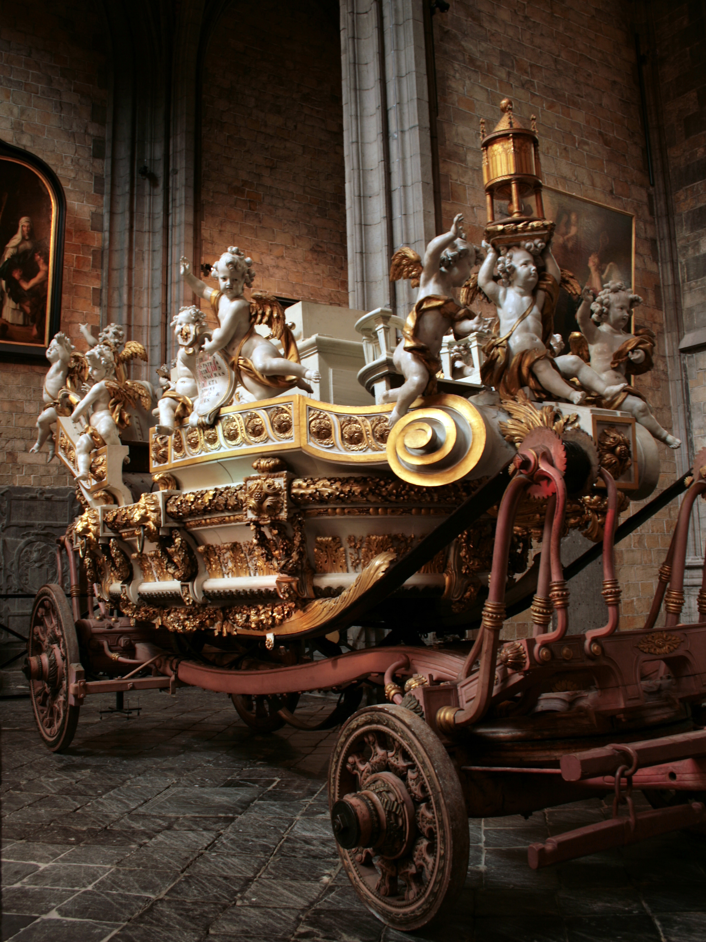 Mons (Belgium), the processional carriage of Saint Waltrude Reliquary (1779-1782) - Collegiate Church of Saint Waltrude.